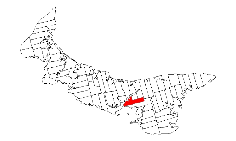 Public domain map of Prince Edward Island created by User:Plasma east with data courtesy of Geogratis, modified to show townships. Released under GFDL (self).